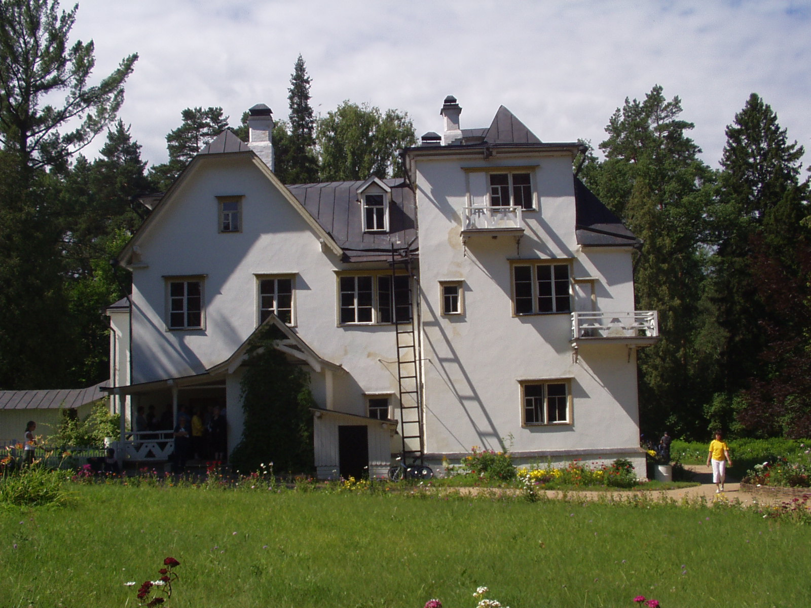 Polenov's mansion in Polenovo (formerly Borok), Tula region, Russia